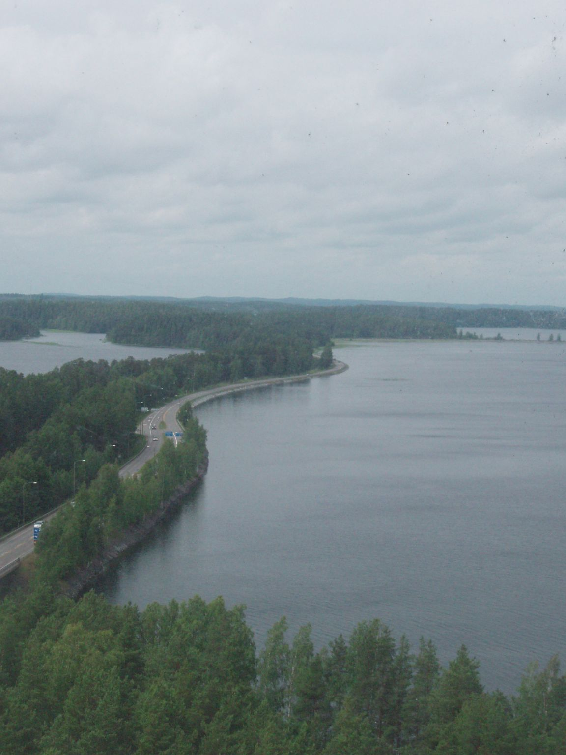 The road over Punkaharju ridge (highway 14) seen from the water tower in the village, in Punkaharju, Finland